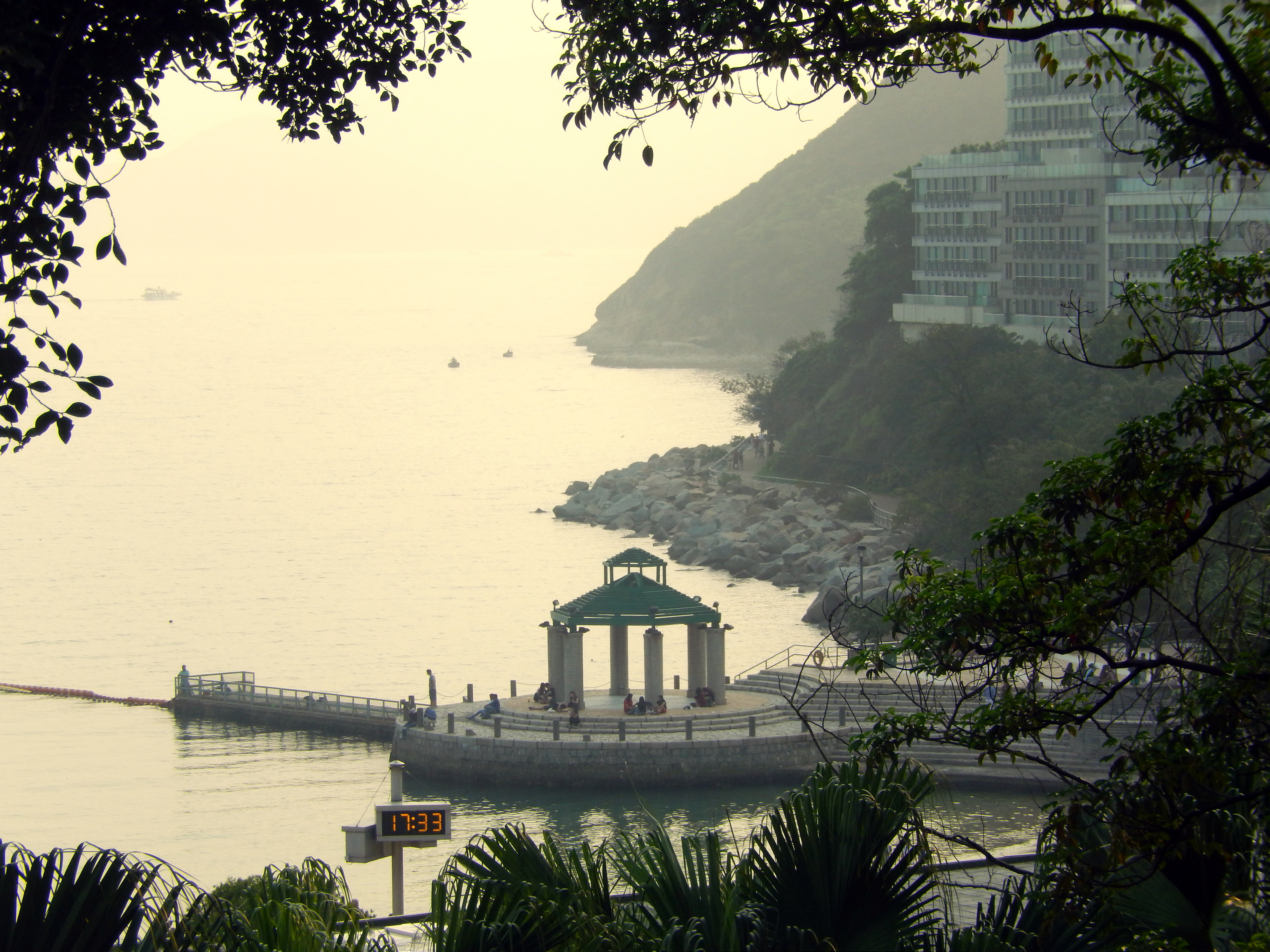 Repulse Bay Beach 淺水灣泳灘